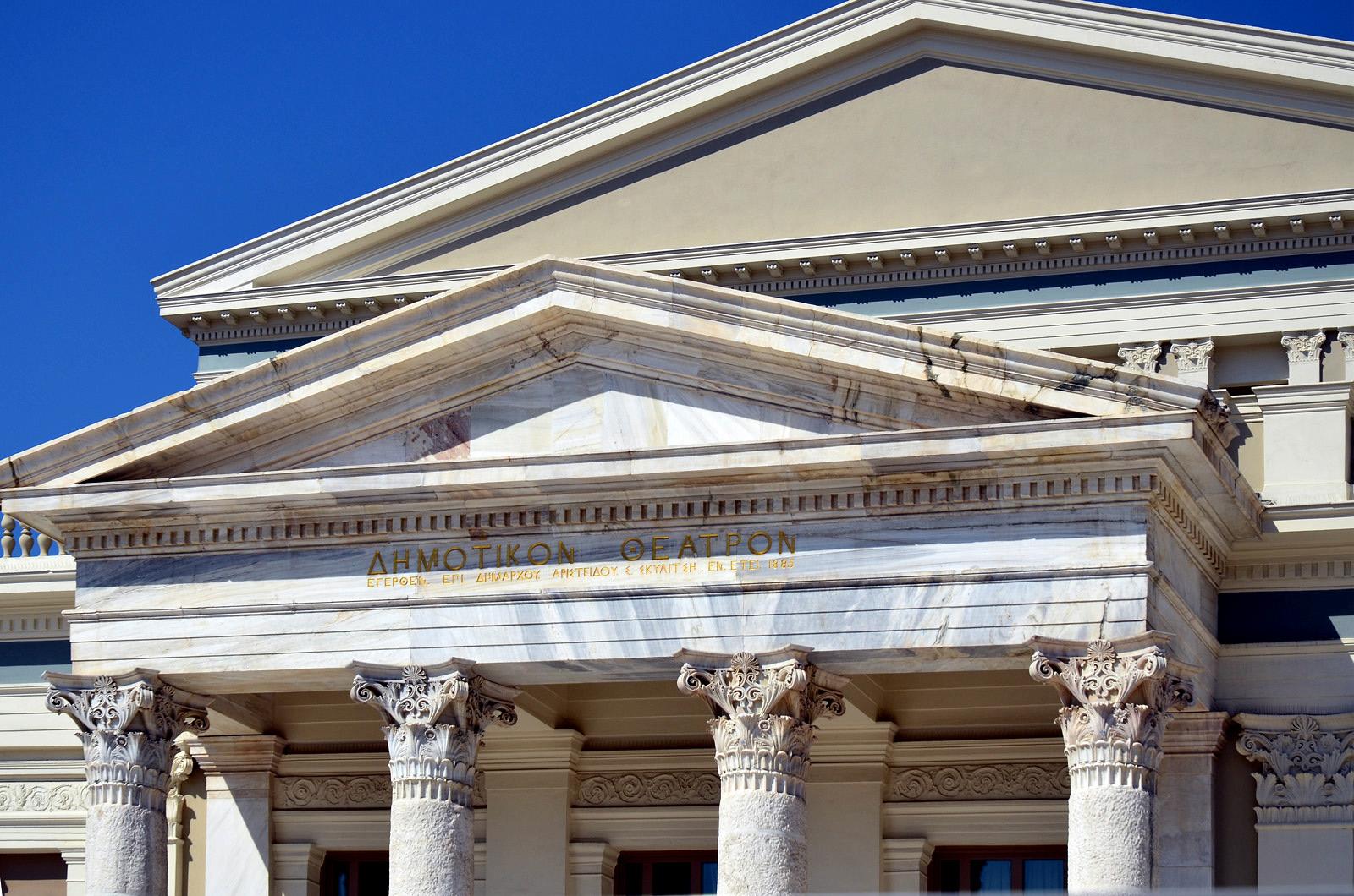 Municipal Theatre / Piraeus Architect: Ioannis Lazarimou, 1895, in neo-classical style. Image shows exterior's Corinthian capitals, entablature and pediments. Piraeus, Athens Urban Area, Greece.